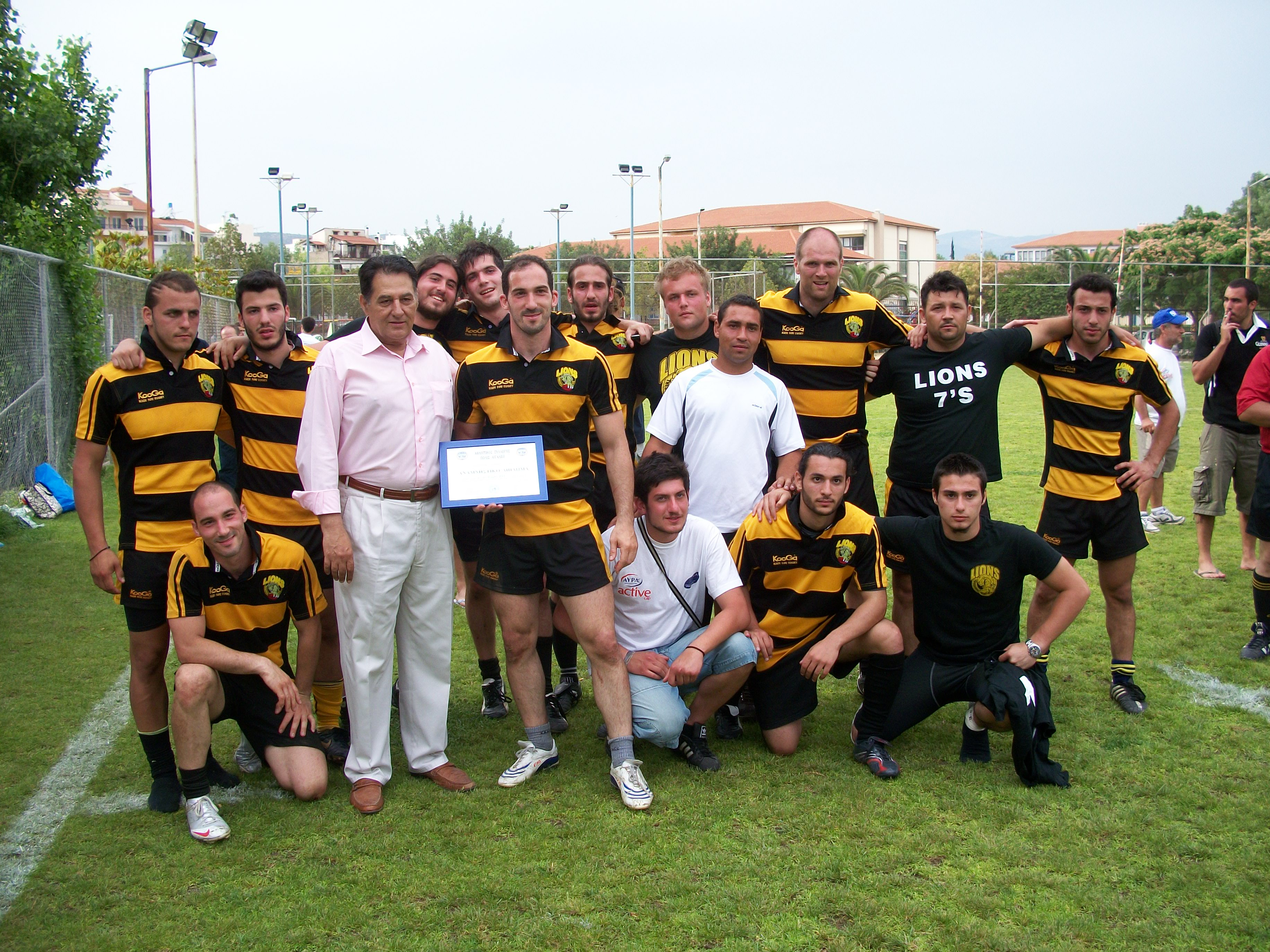 Greece National Championship Rugby Sevens 2010